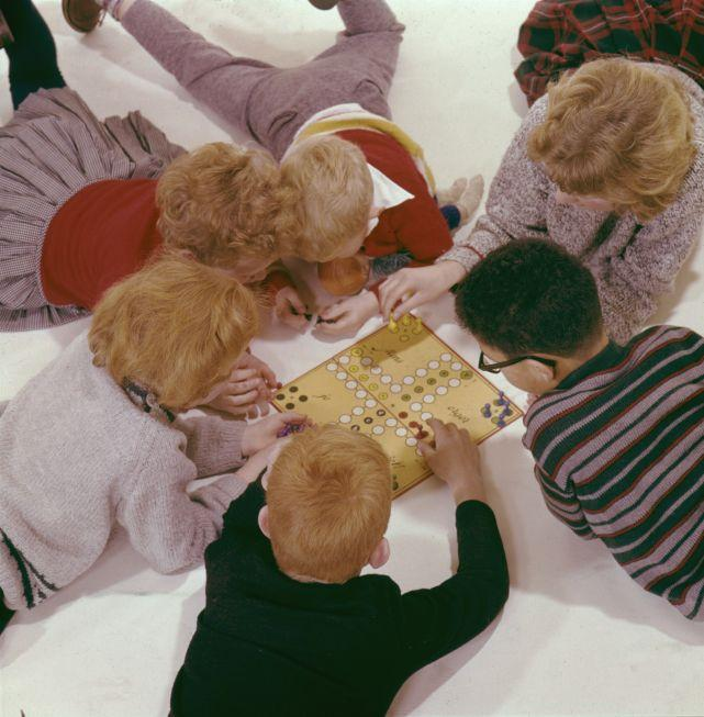 Children playing the game "Keep your shirt on". The Netherlands, 1965. Hebt u meer informatie over deze foto, laat het ons weten. Laat een reactie achter (als u ingelogd bent bij Flickr) of stuur een mailtje naar: Please help us gain more knowledge on the content of our collection by simply adding a comment with information. If you do not wish to log in, you can write an e-mail to: Meer foto’s van Spaarnestad Photo zijn te vinden op onze beeldbank